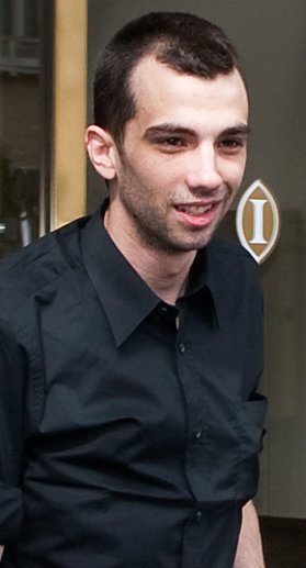 Jay Baruchel at the 2009 Toronto International Film Festival.